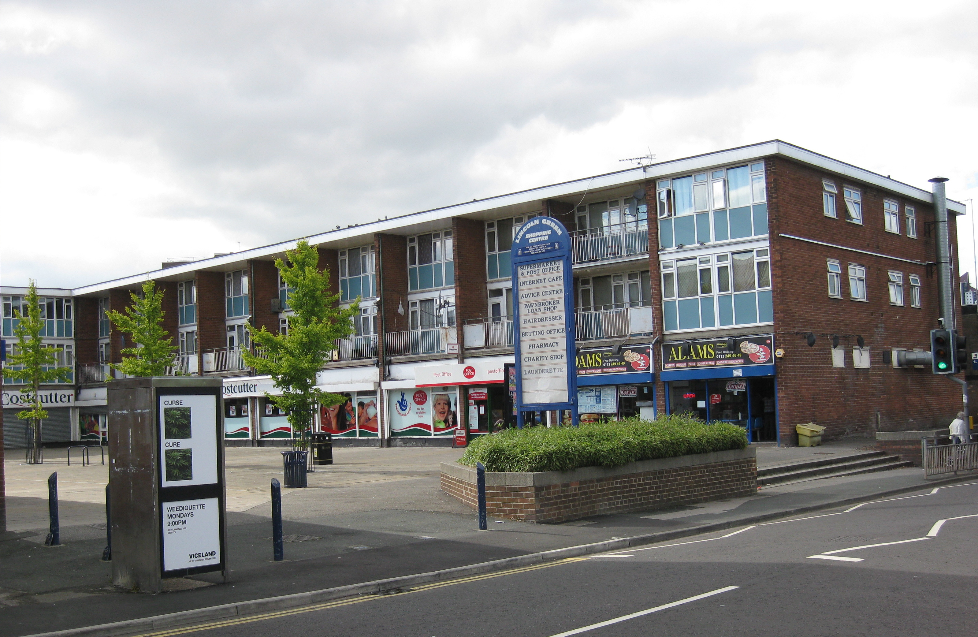 Lincoln Green Shopping Centre, Lincoln Green Road, Leeds LS9. Opened 1962